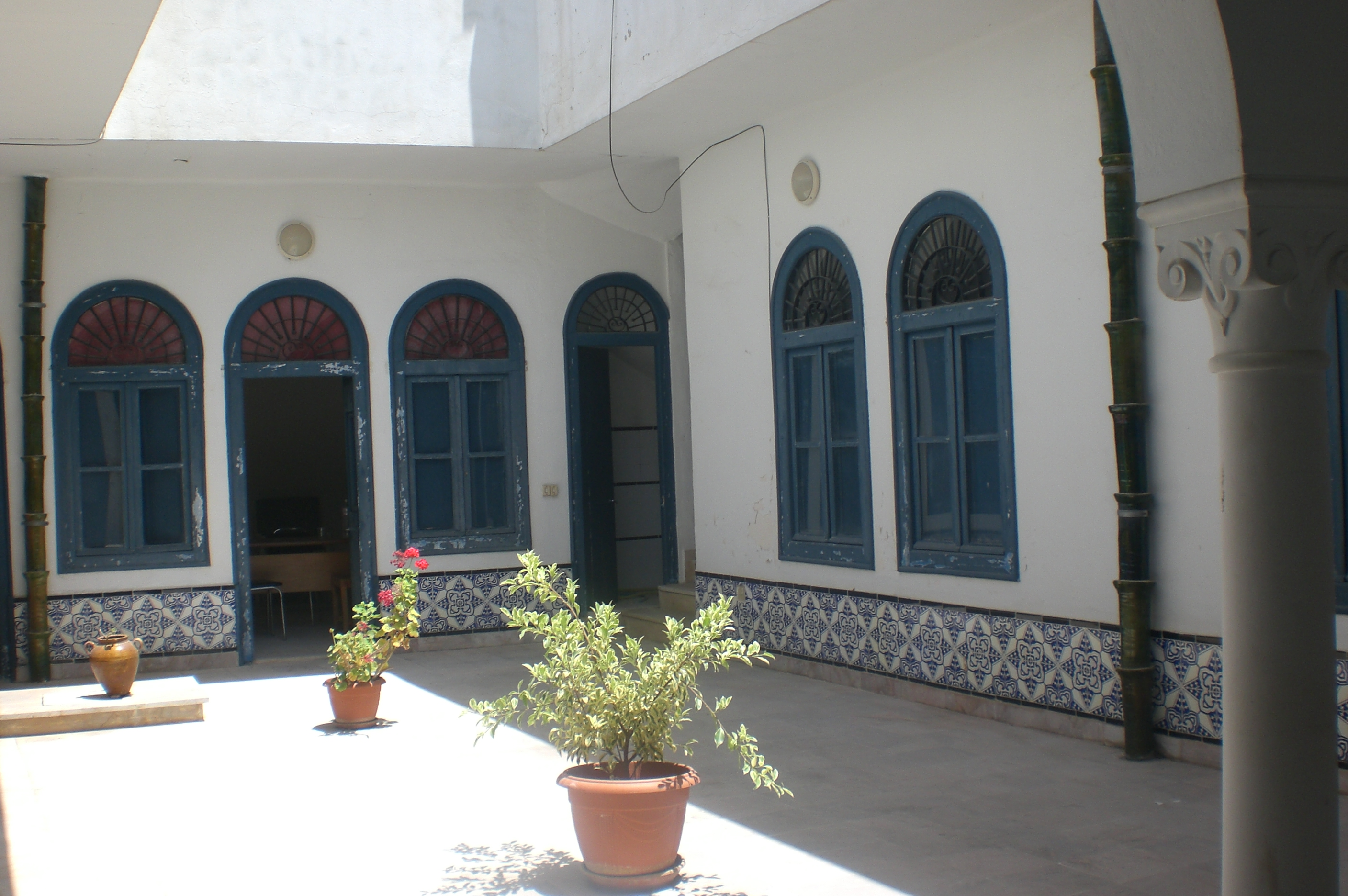 Interior of Medersa Asfouria Tunis